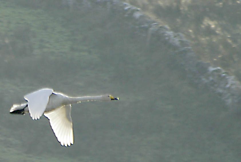 Whooper swan, near Kilfenora, Co. CLare Ireland. Danny Burke